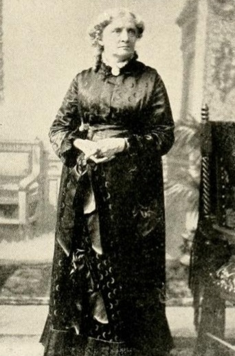 Photographic portrait of American lecturer and reformer Isabella Beecher Hooker (1822-1907). From American Women: Fifteen Hundred Biographies with Over 1,400 Portraits, Frances E. Willard and Mary A. Livermore, editors. Mast, Crowell & Kirkpatrick, 1897 (revised edition from 1893), vol. 1, p. 391. Cropped version.